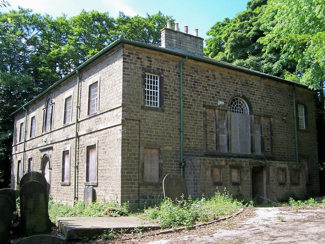 Loxley United Reformed Independent Church. Built in 1787 and closed in the early 1990's ... all closed up and looking forlorn ... needs somebody with 'loadsamoney' to do something good with it. What they will do with the Graves is another matter though! 1022648 1022655 1022666 1022681